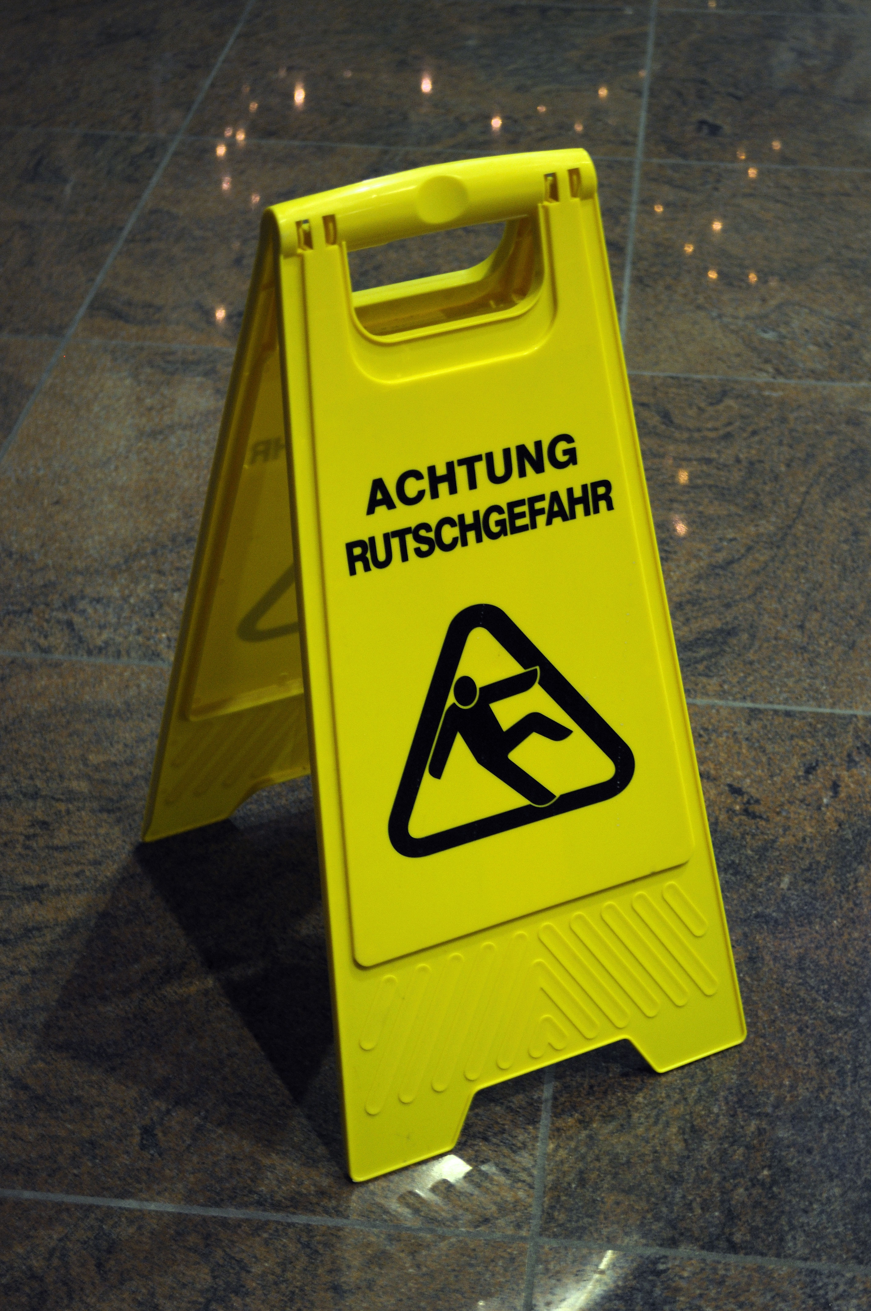 Safety Sign: Slippery Ground